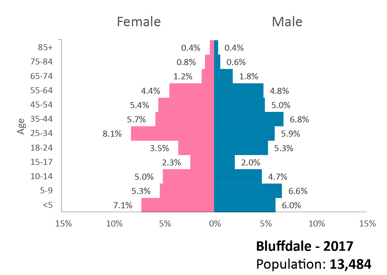 Population Pyramid Created for Bluffdale City using 2017 ACS 5-year estimates data.